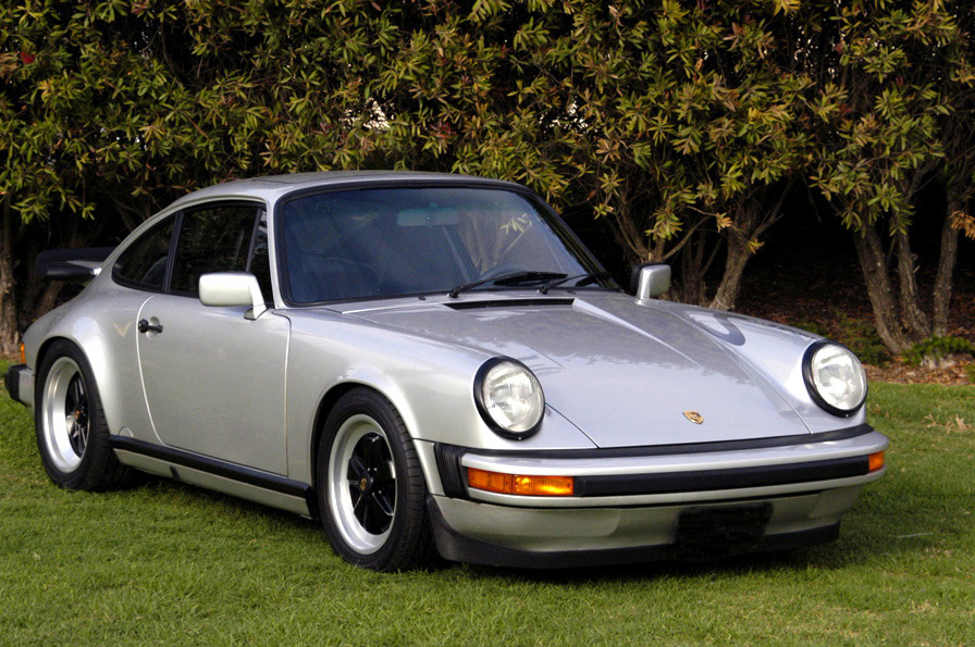 Porsche 911 Carrera Club Sport